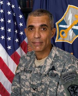 Pictured is KB in front of INSCOM and the US flags.